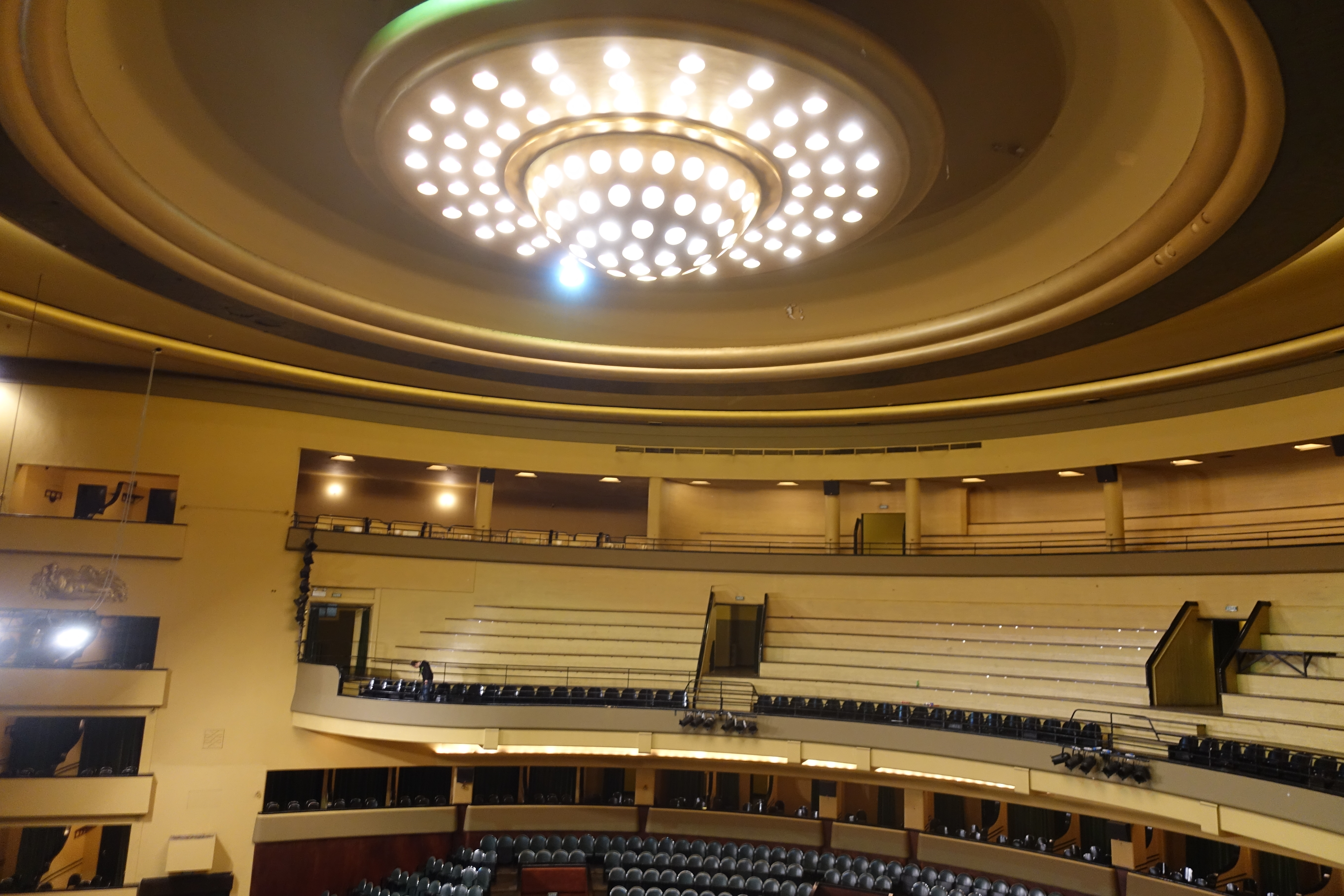 Interior of Coliseu do Porto in 2016, Porto, Portugal.